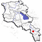 Location map for Dastakert, Armenia.